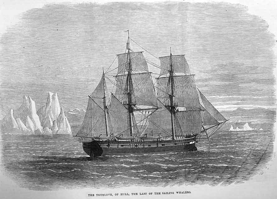 Page from the The Illustrated London News with a Portrait of Tidd Pratt and an illustration of the Truelove whaling Ship from Hull